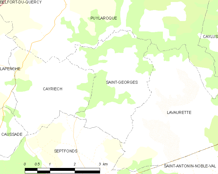 Map of French municipality Saint-Georges